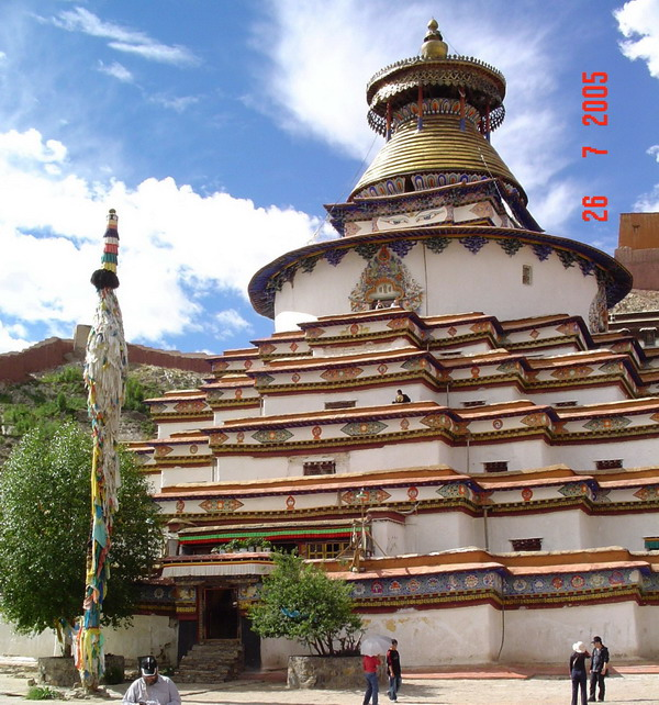 Kumbum of Gyantse